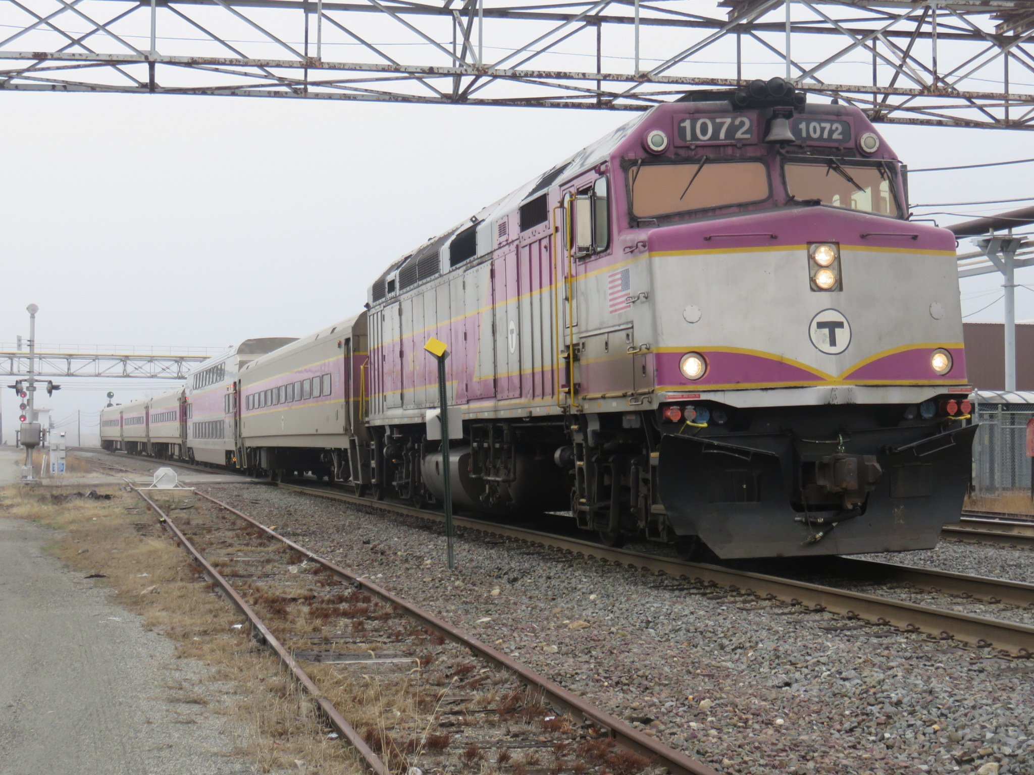 MBTA F40PH-2C #1072 at River Works in March 2016